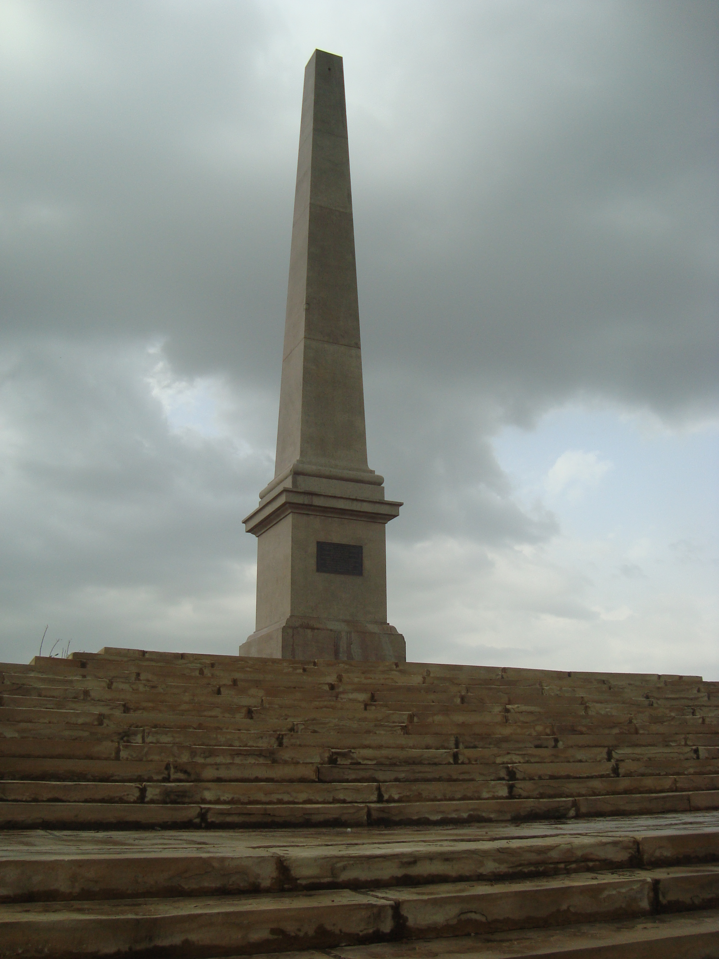 Coronation Park, Delhi